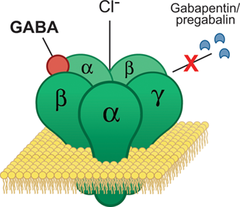 The gabapentinoids are not agonists at γ-aminobutyric acid (GABA) receptors.